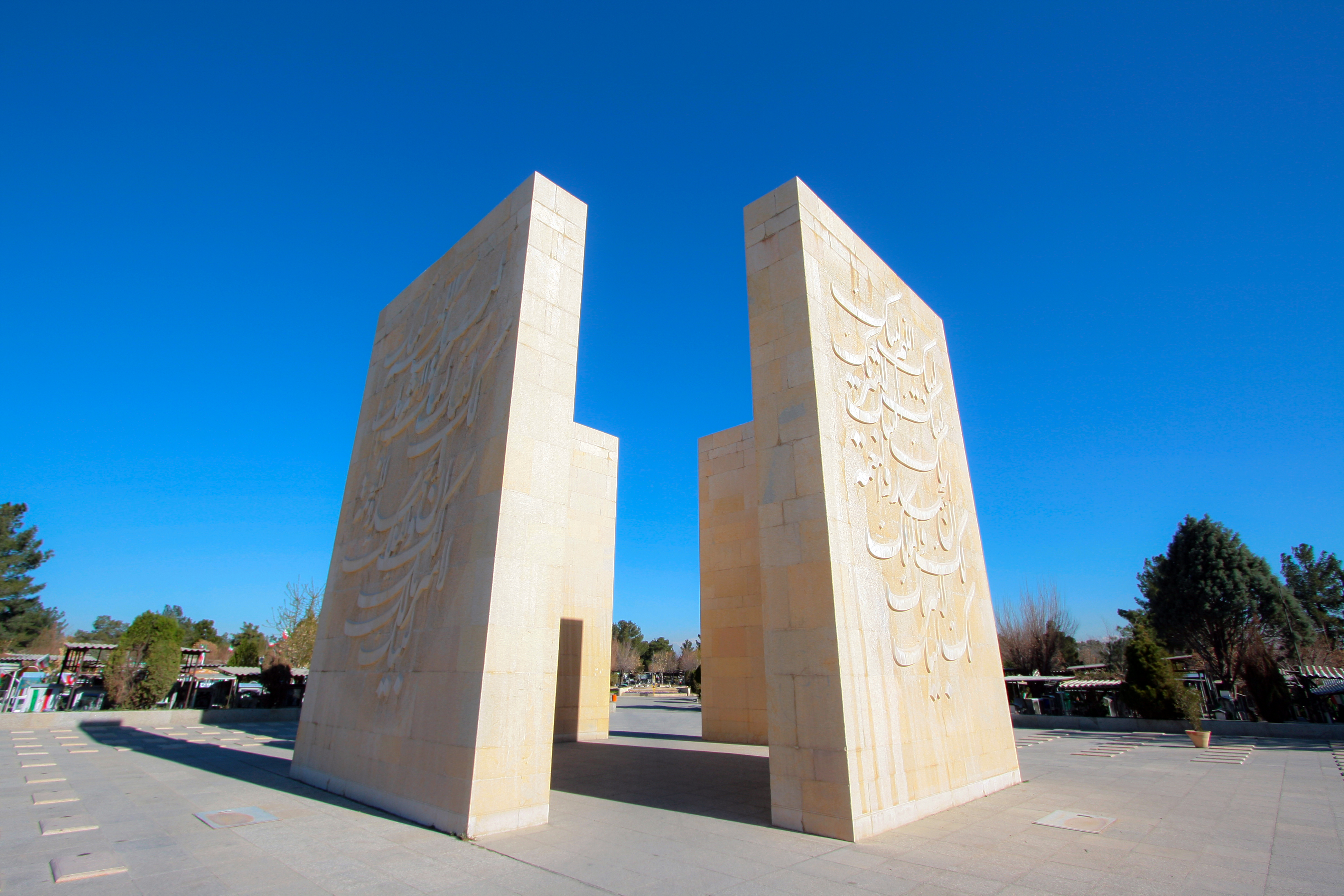 The 1987 Mecca incident was a clash between Shia pilgrim demonstrators and the Saudi Arabian security forces, during the Hajj pilgrimage; it occurred in Mecca on 31 July 1987 and led to the deaths of over 400 people. The event has been variously described as a "riot" or a "massacre".